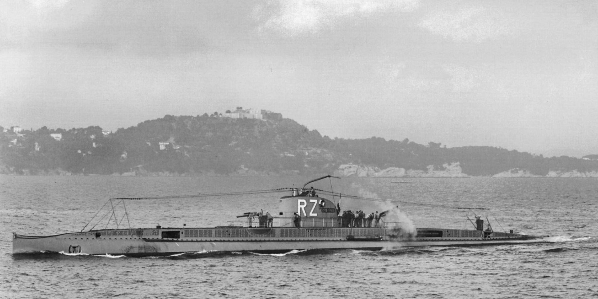 French sumbarine Romazzotti, of the Lagrange class, after 1922-1923 refit.